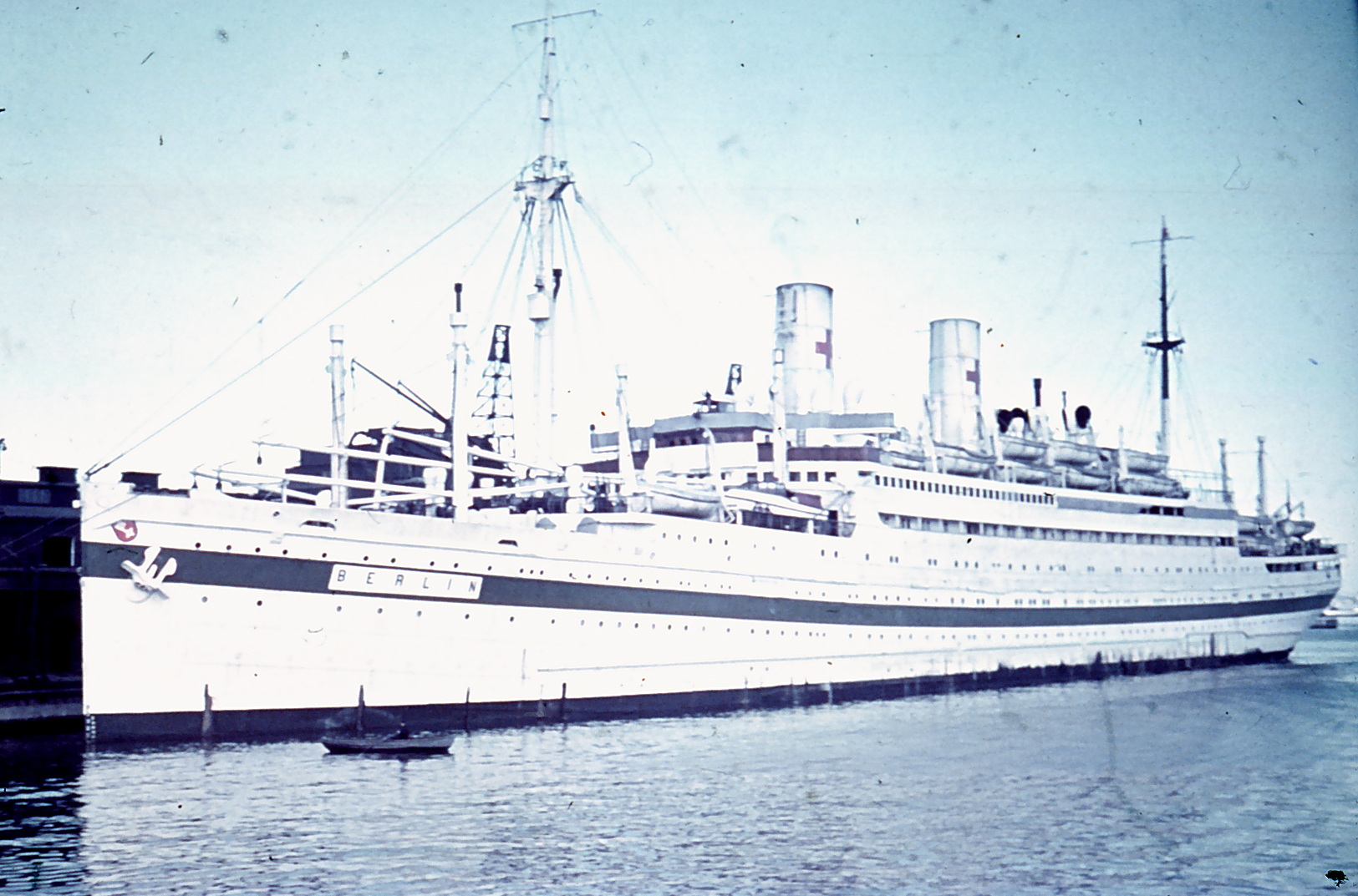 Hospital ship SS Berlin III at Langelinie, between 1940-42